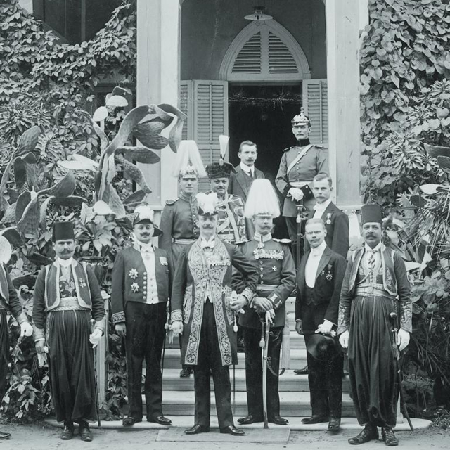 Max von Oppenheim fron 2nd from left in front of the German Consulate in Cairo, 1906